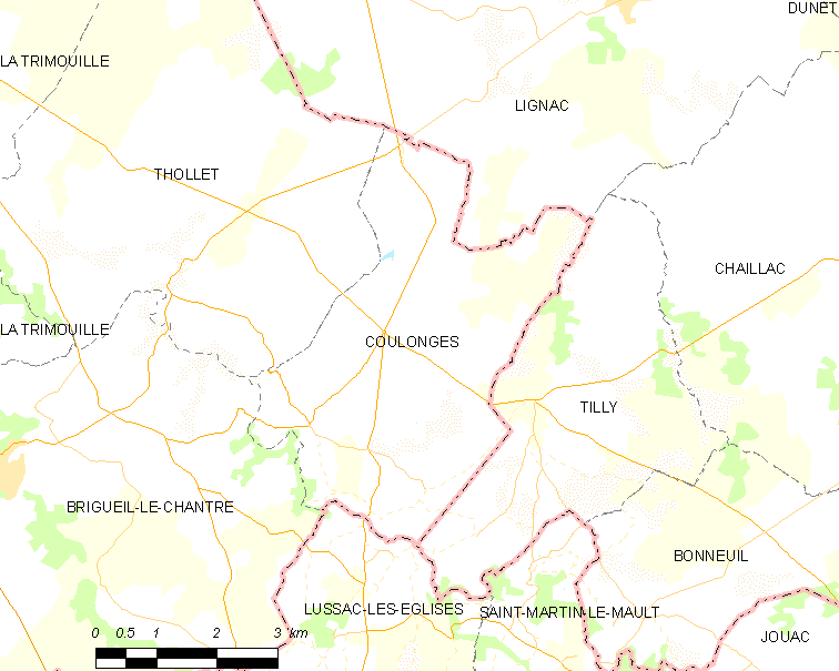 Map of French municipality Coulonges